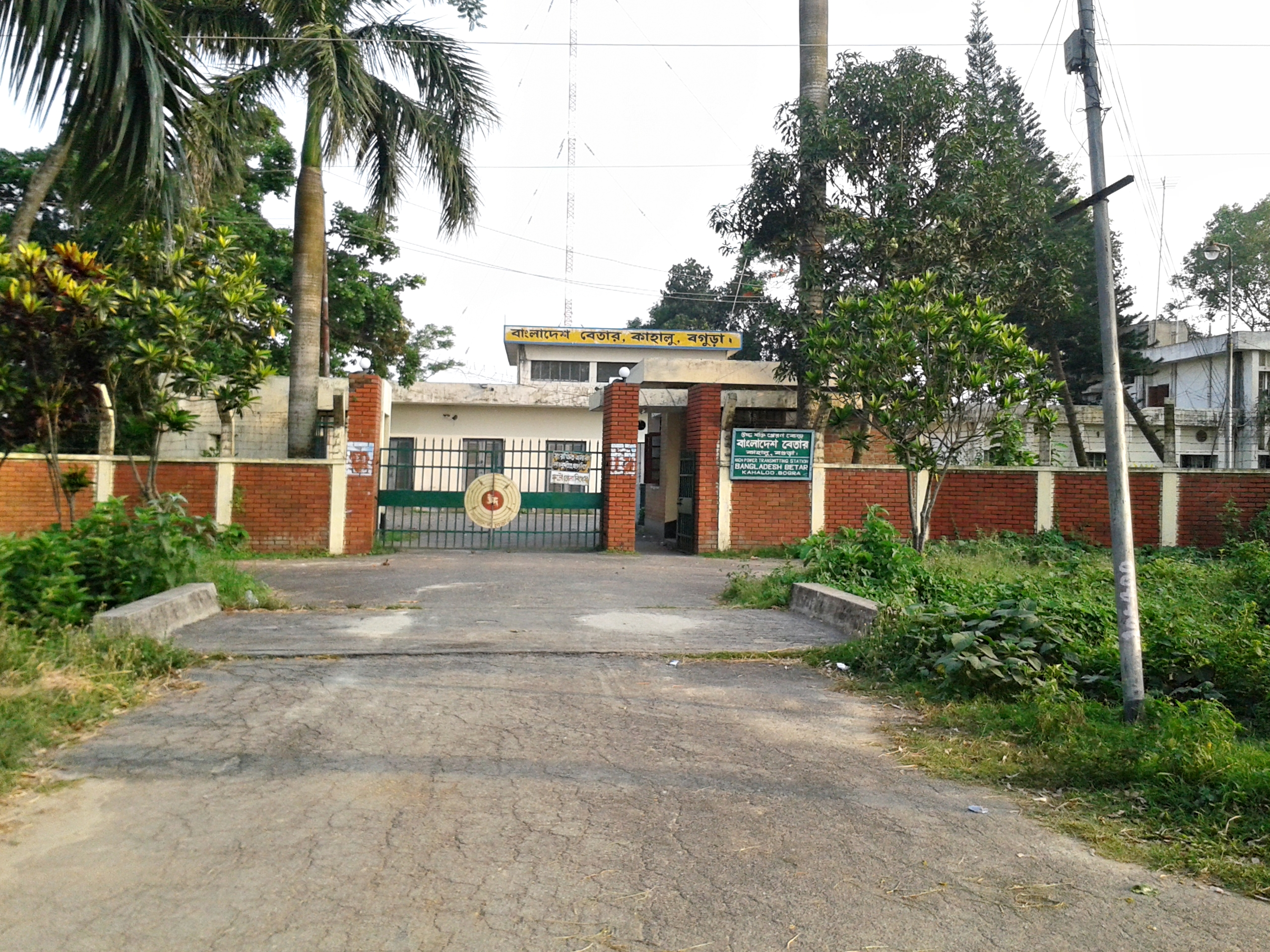 Bangladesh Betar Kahalu, Bogra